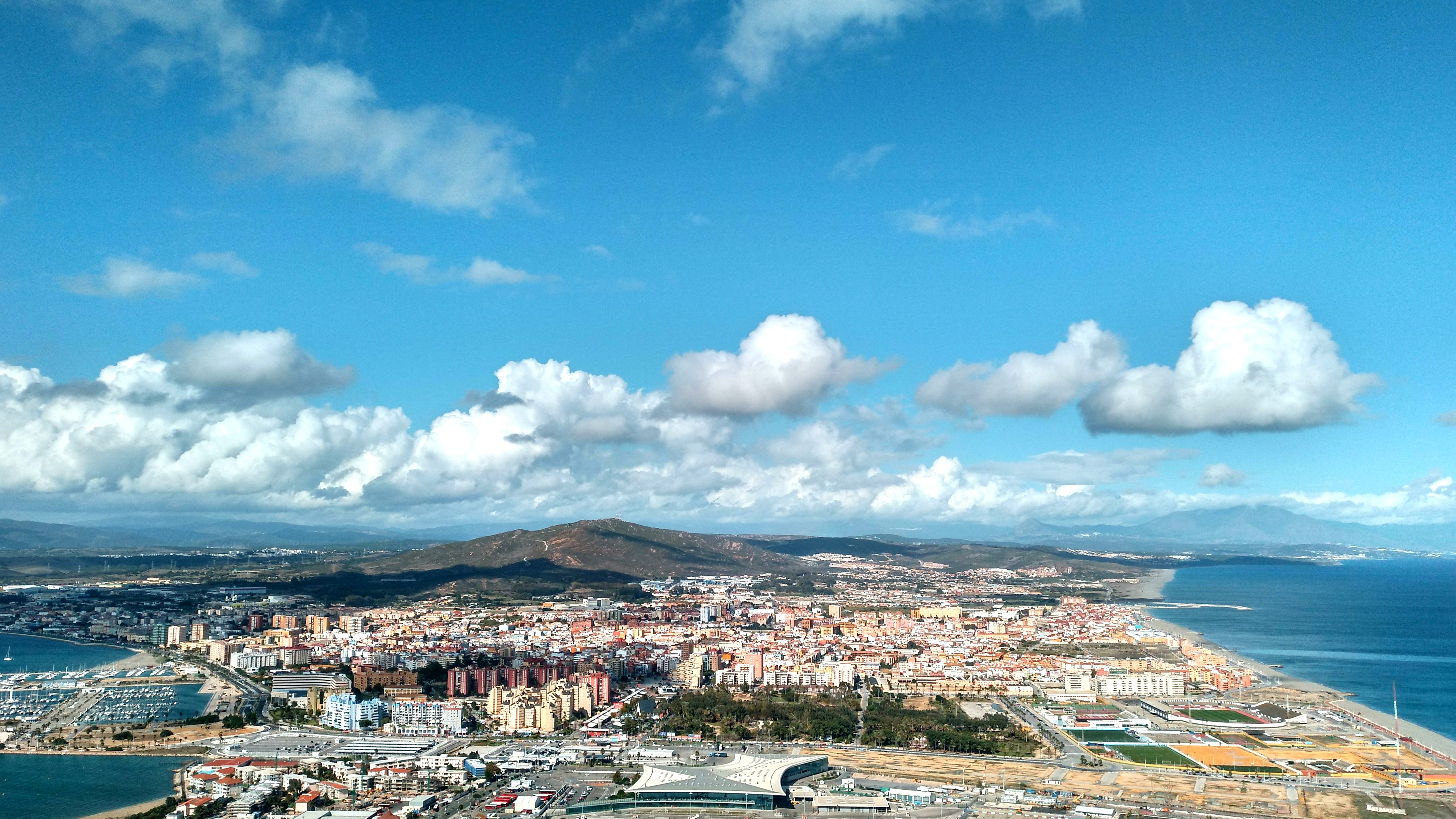 Views of the Line of the Conception from the top of the Rock of Gibraltar. Views of the two beaches, west and east, and Sierra Carbonera in the background.